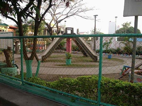 Central Park